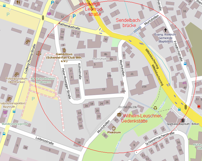 Bayreuth Moritzhöfen map